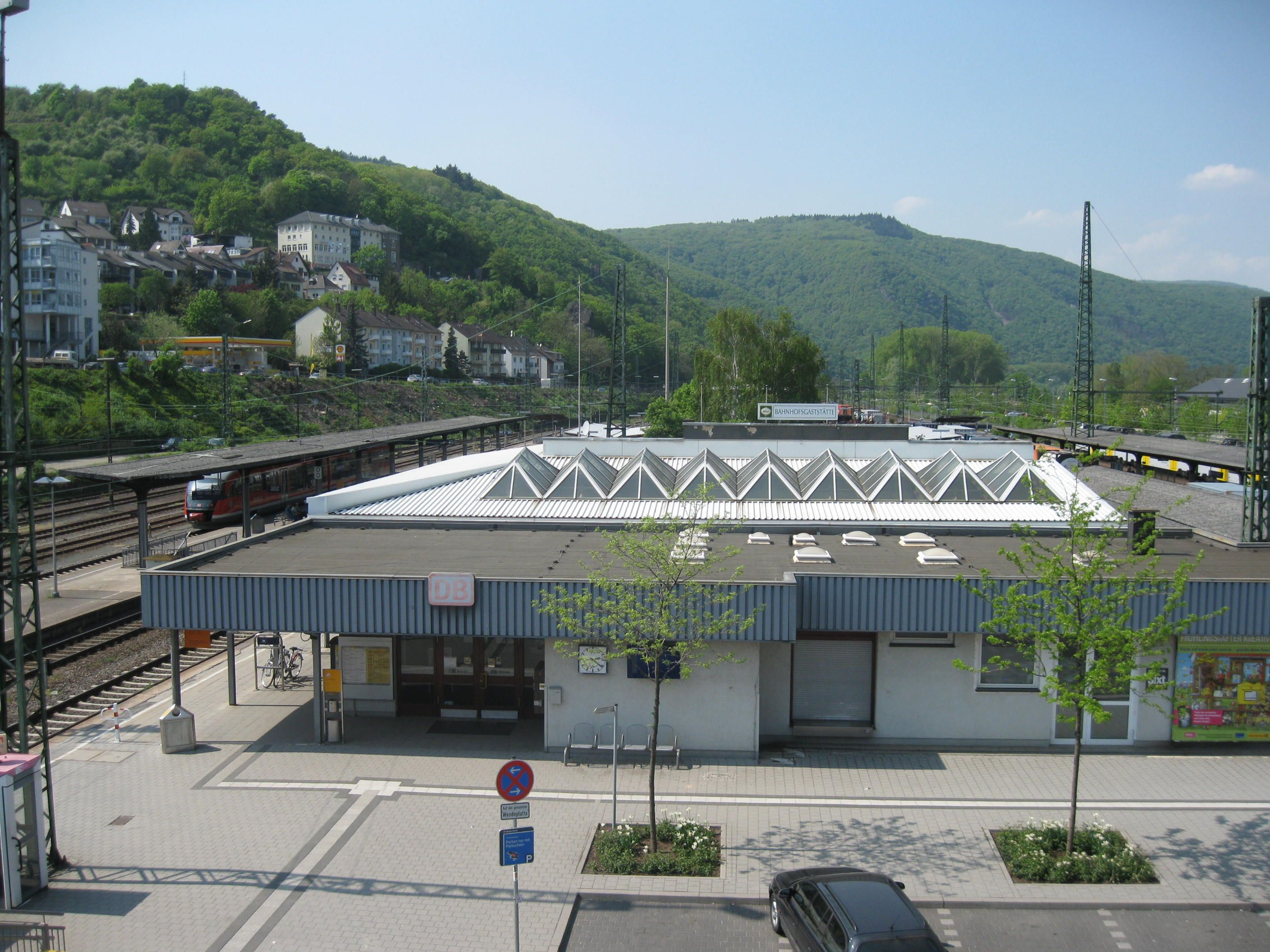 View on Bingen (Rhein) Main Station from the bridge